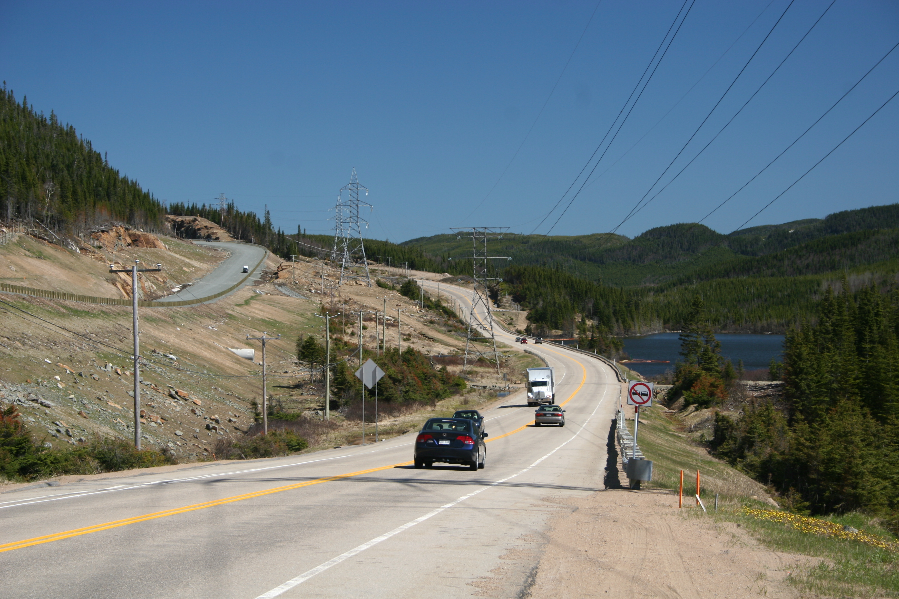 Construction of the road 175.